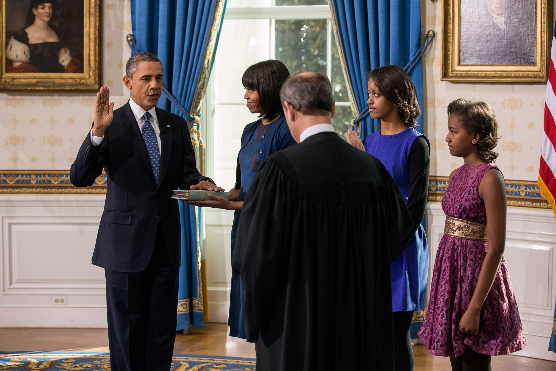 Supreme Court Chief Justice John Roberts administers the oath of office to President Barack Obama during the official swearing-in ceremony in the Blue Room of the White House on Inauguration Day, Sunday, Jan. 20, 2013. First Lady Michelle Obama, holding the Robinson family Bible, along with daughters Malia and Sasha, stand with the President.